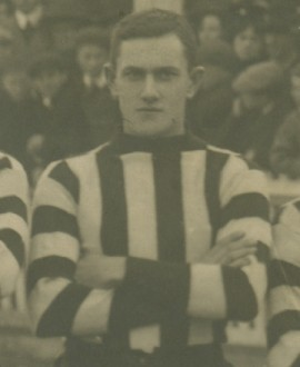 Photograph of Bertie McDougall in 1910